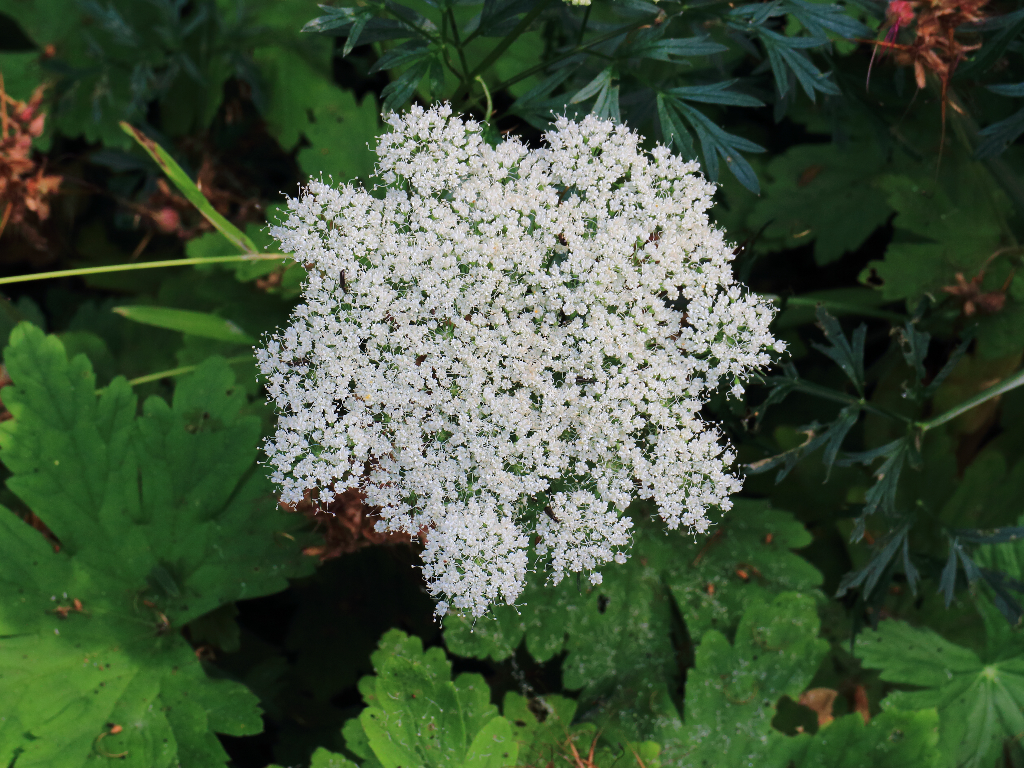 Cenolophium denudatum, a beautiful flower display relatively unknown in semi-shade.